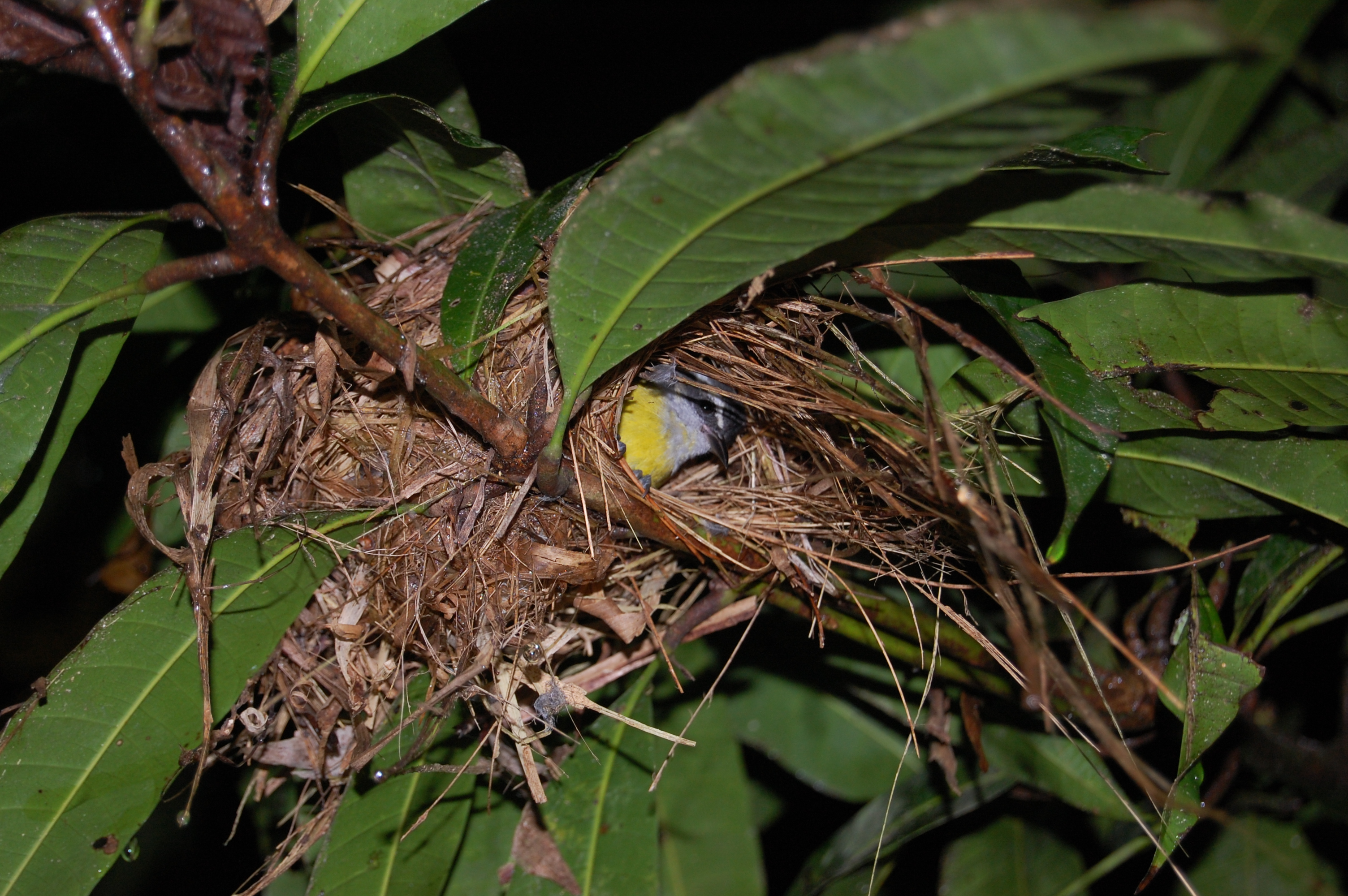 A Bananquit (Coereba flaveola) in its nest at night, in the Osa Peninsula of Costa Rica.